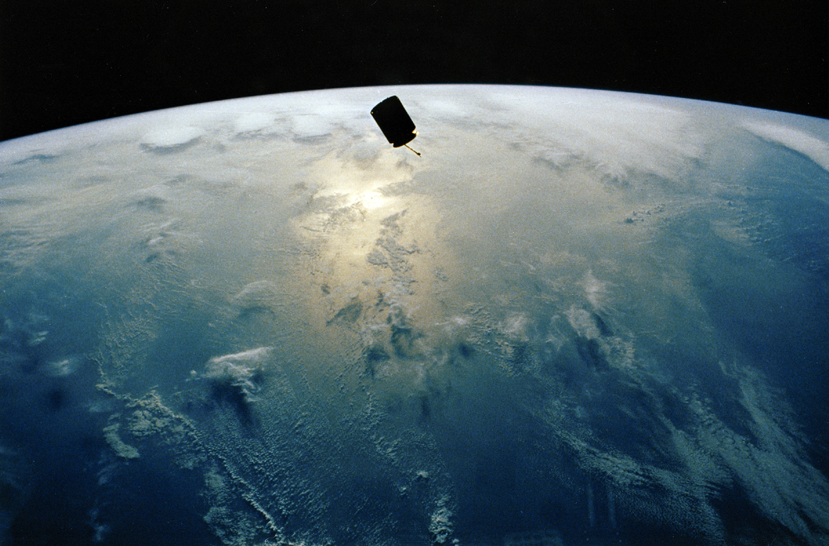 Pre-capture view of communication satellite Intelsat VI (F-3) orbiting Earth, seen from STS-49 Endeavour